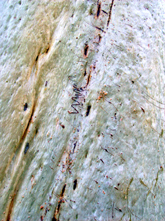 veteran original Eucalyptus racemosa at St Leonards Park, North_Sydney